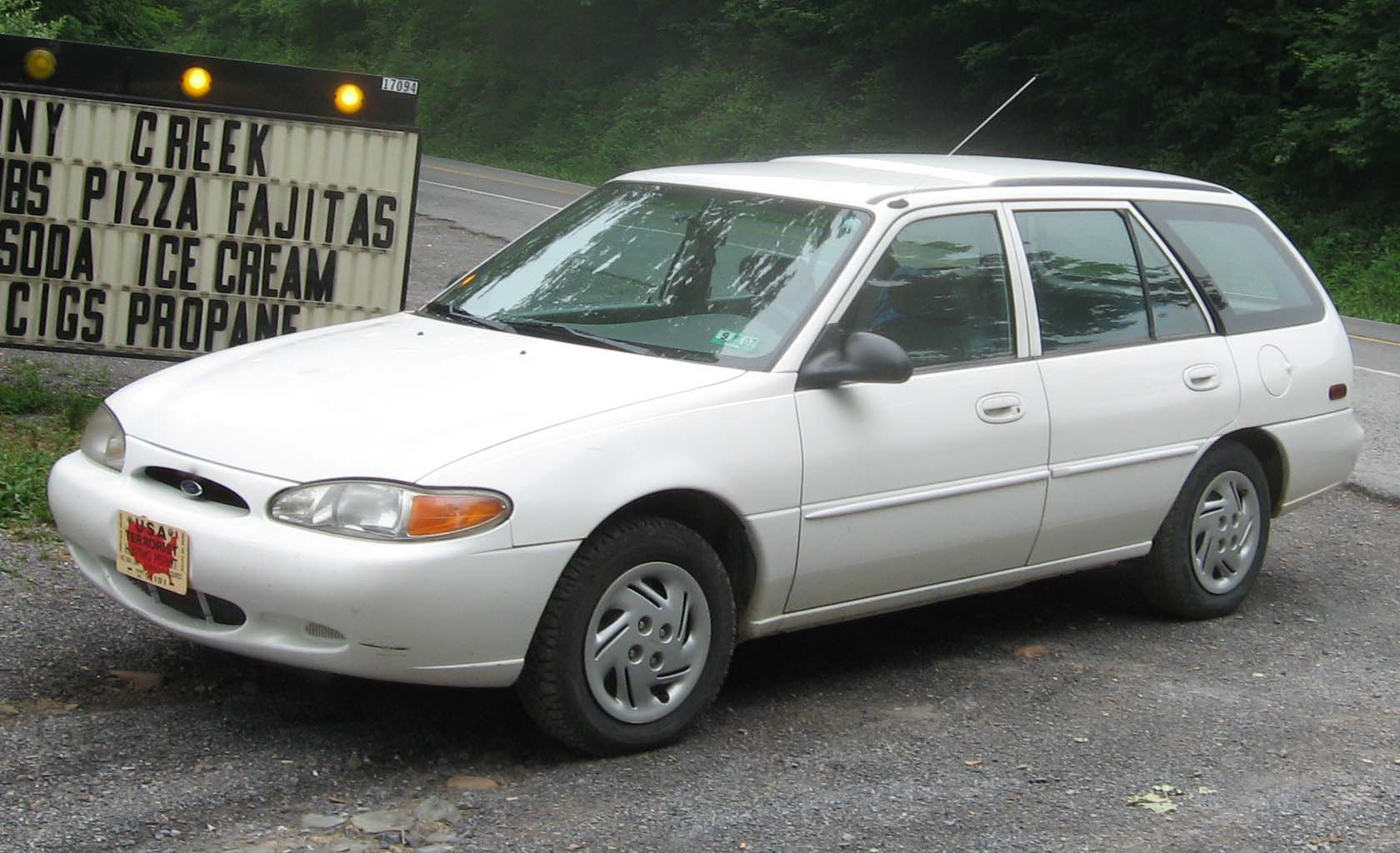 1997-1999 Ford Escort (LX trim) photographed in USA.